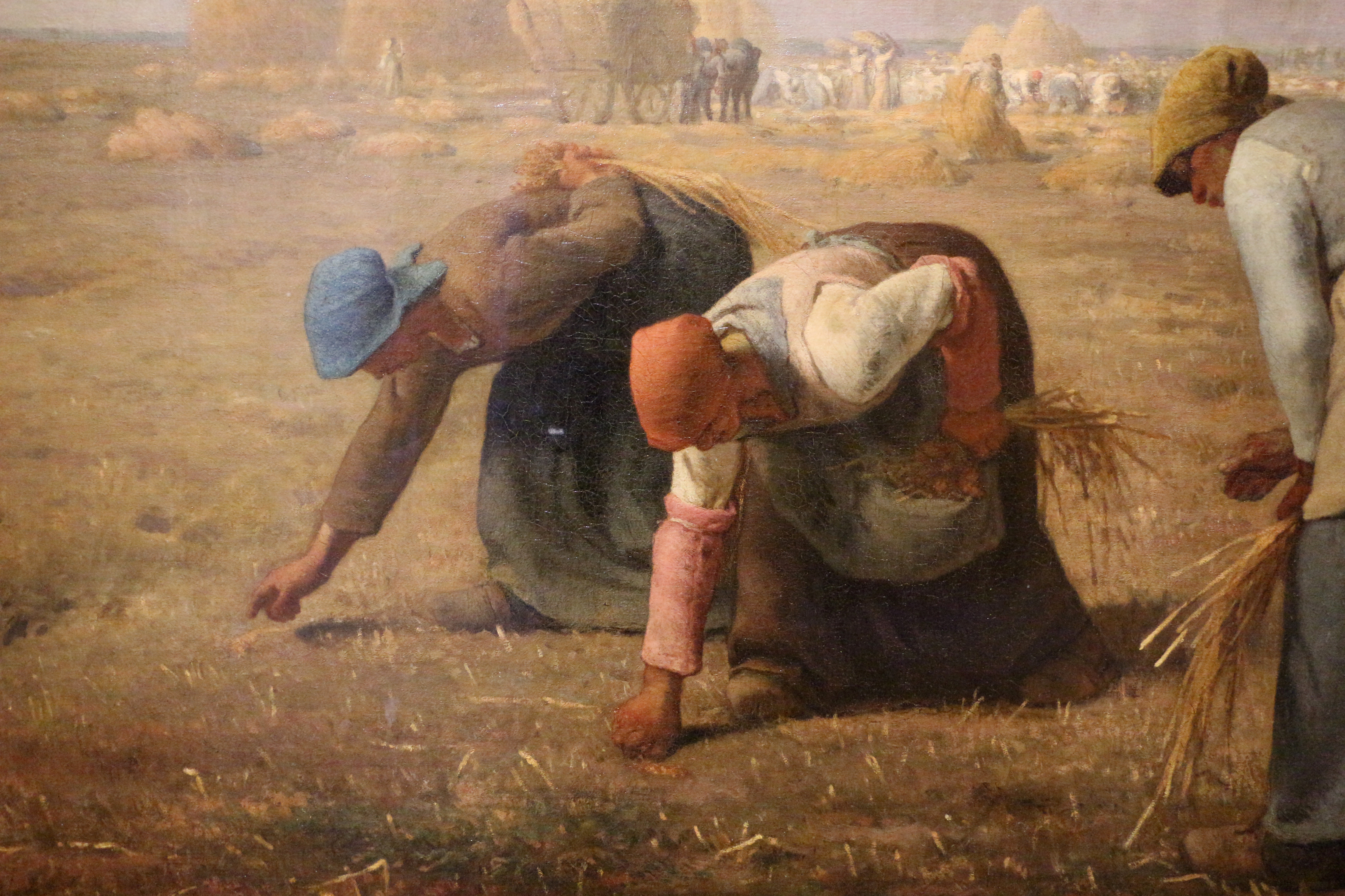 Paintings in Musée d'Orsay